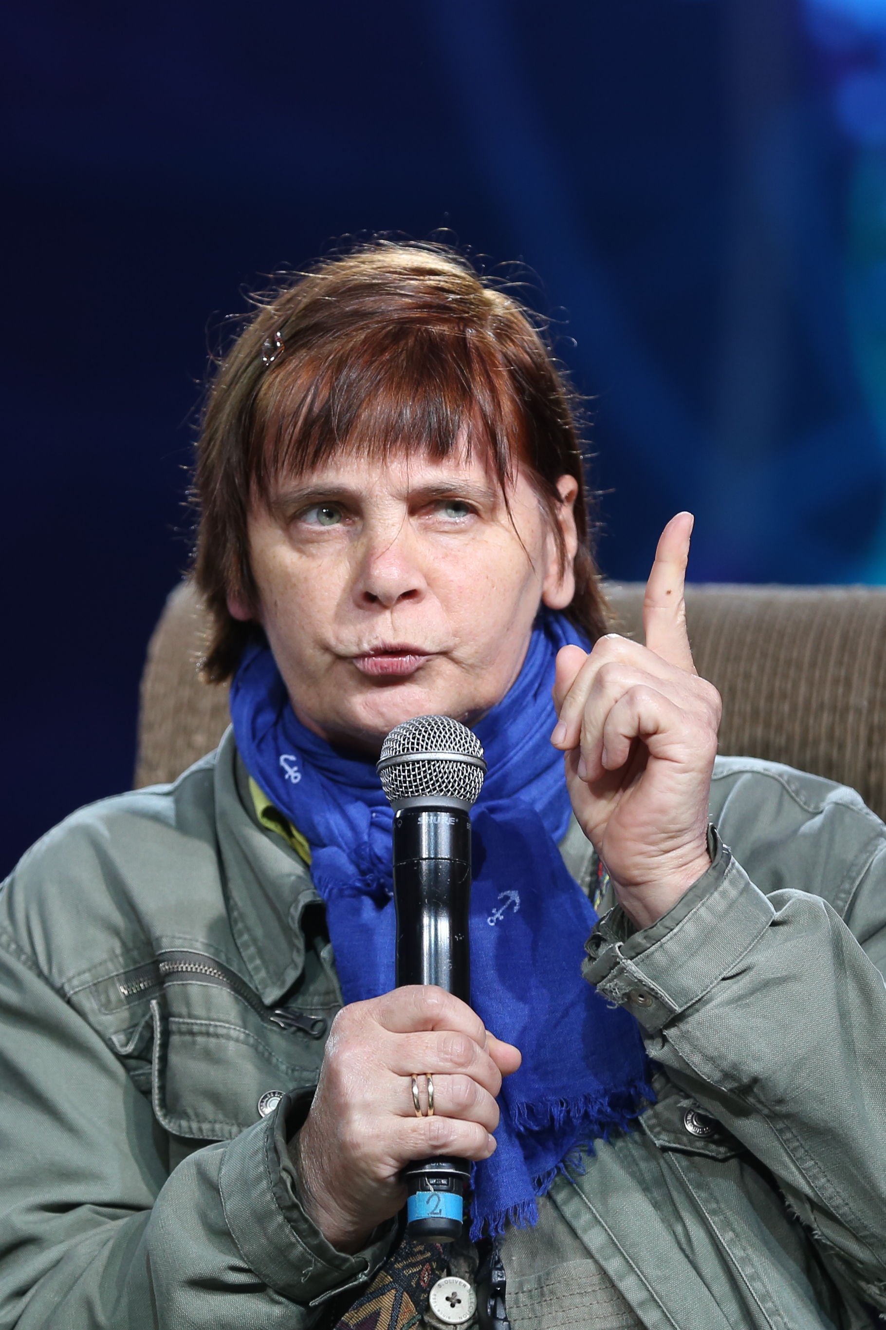 Przystanek Woodstock in 2016.